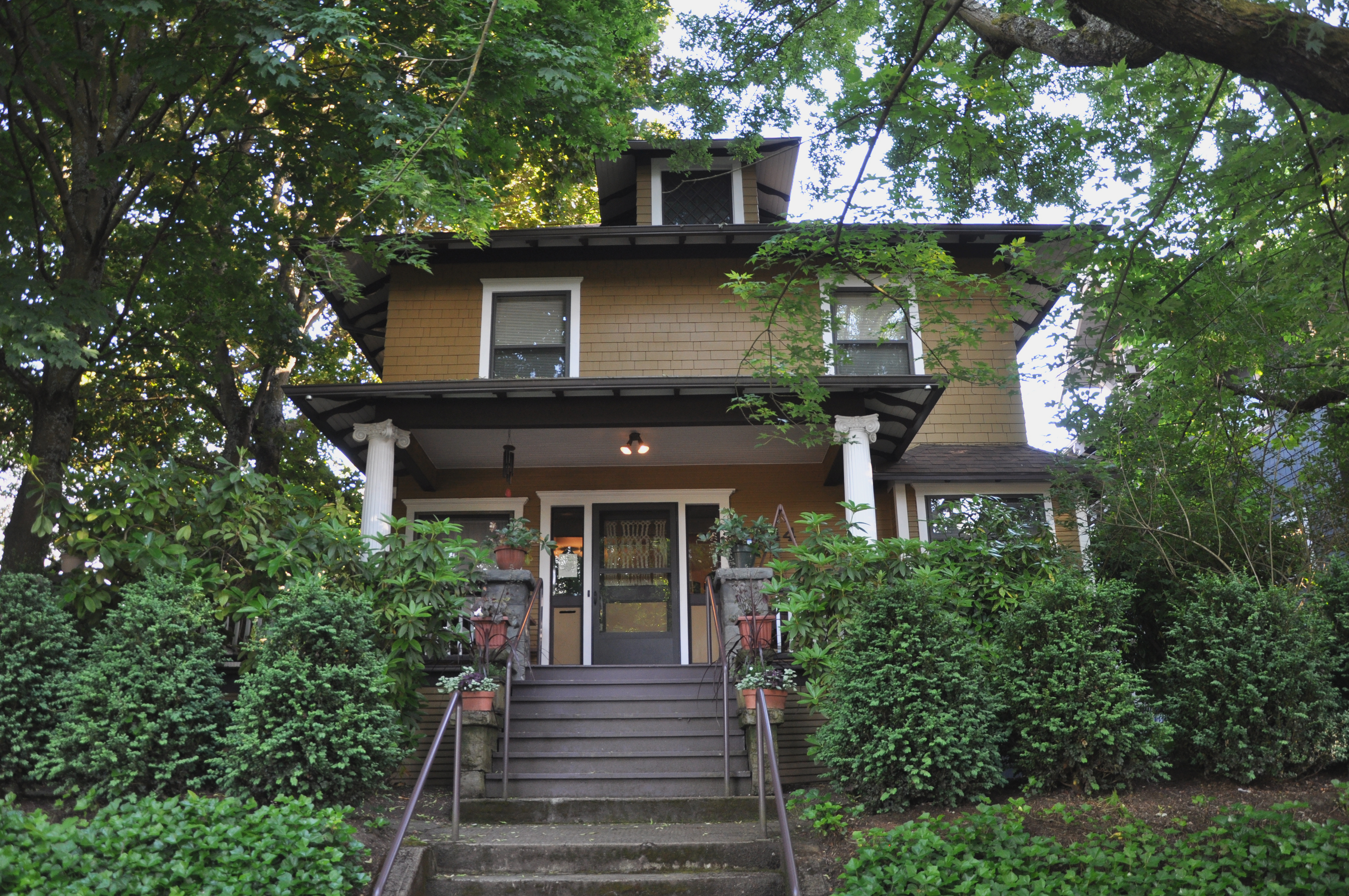 Jessie M. Raymond House in Portland in the U.S. state of Oregon. The structure is listed on the National Register of Historic Places.